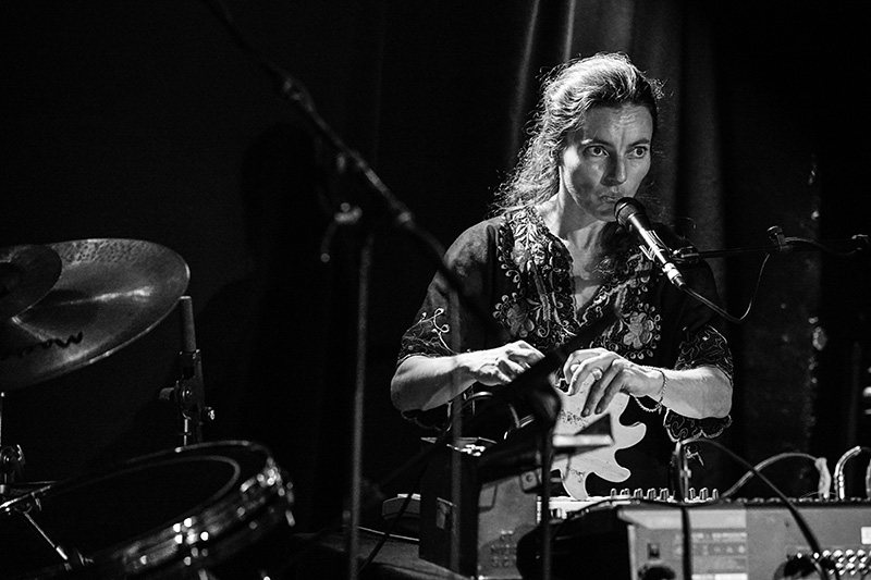 Maja Ratkje in Aarhus, Denmark august 2018